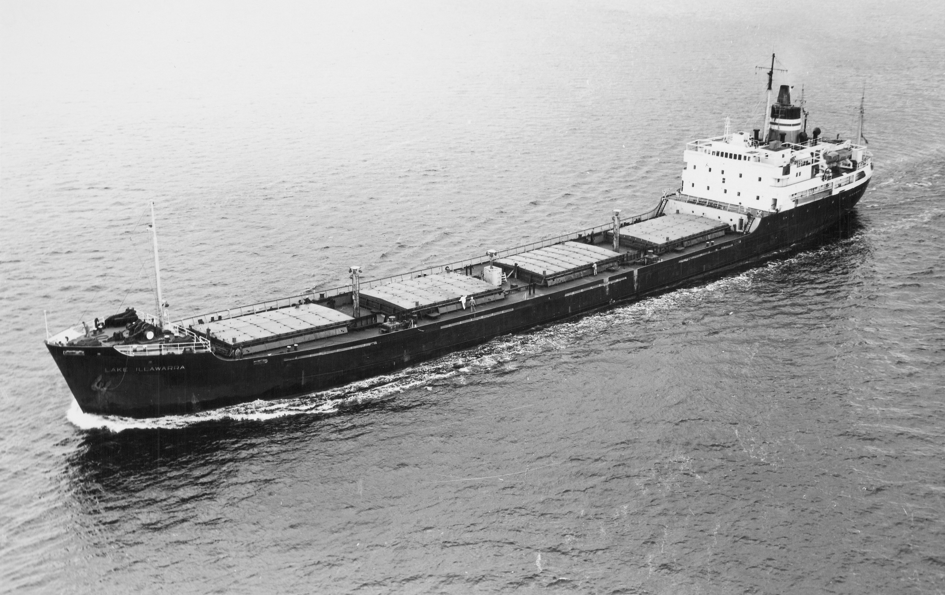 Tasmanian Archives and Heritage Office: NS1054-1-781 Images from the TAHO collection that are part of The Commons have ‘no known copyright restrictions’, which means TAHO is unaware of any current copyright restrictions on these works. This can be because the term of copyright for these works may have expired or that the copyright was held and waived by TAHO. The material may be freely used provided TAHO is acknowledged; however TAHO does not endorse any inappropriate or derogatory use.